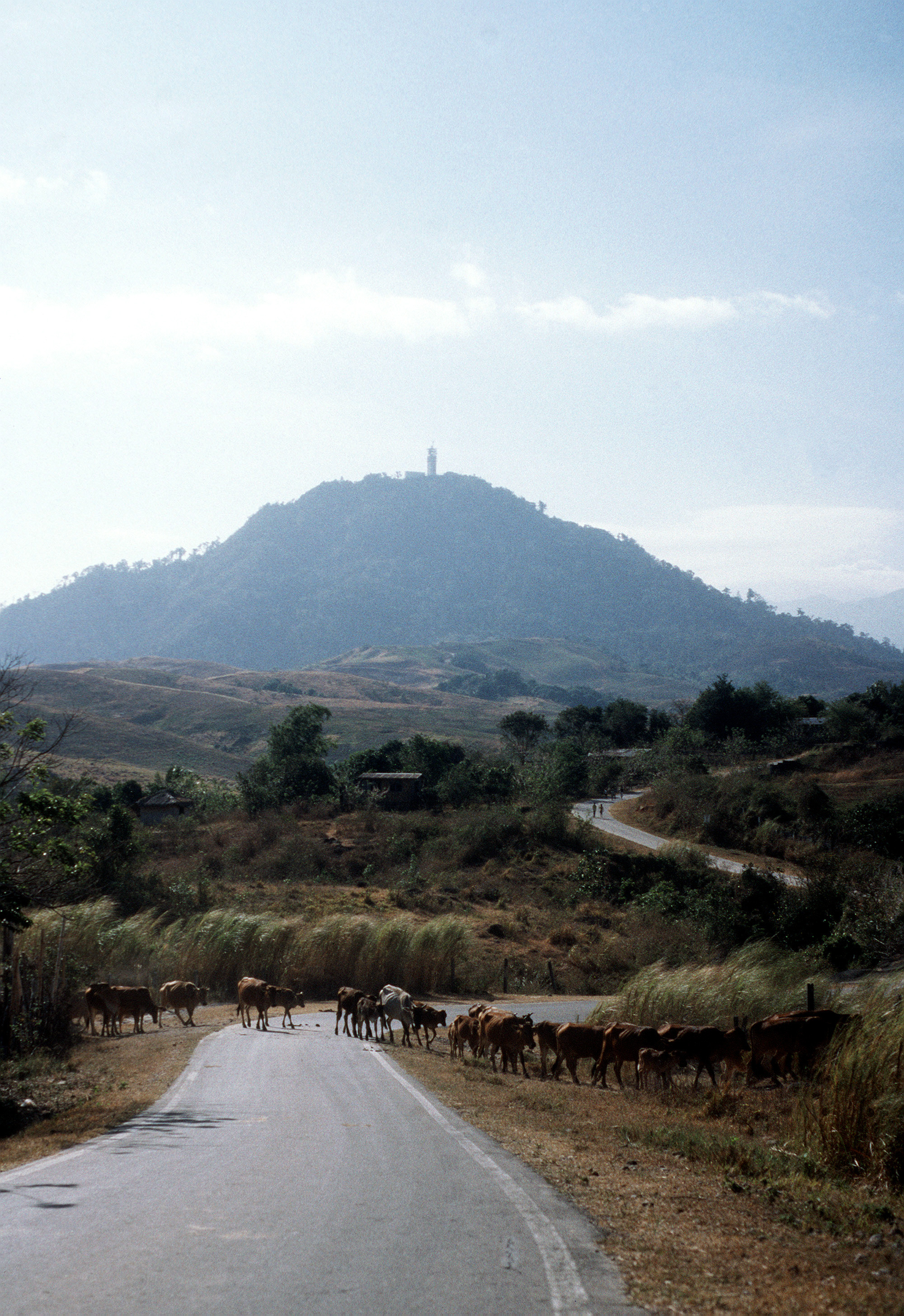 View of the U.S. Navy Mount Santa Rita Naval Link Station in the Zambales Mountains in the Philippines, in 1981.